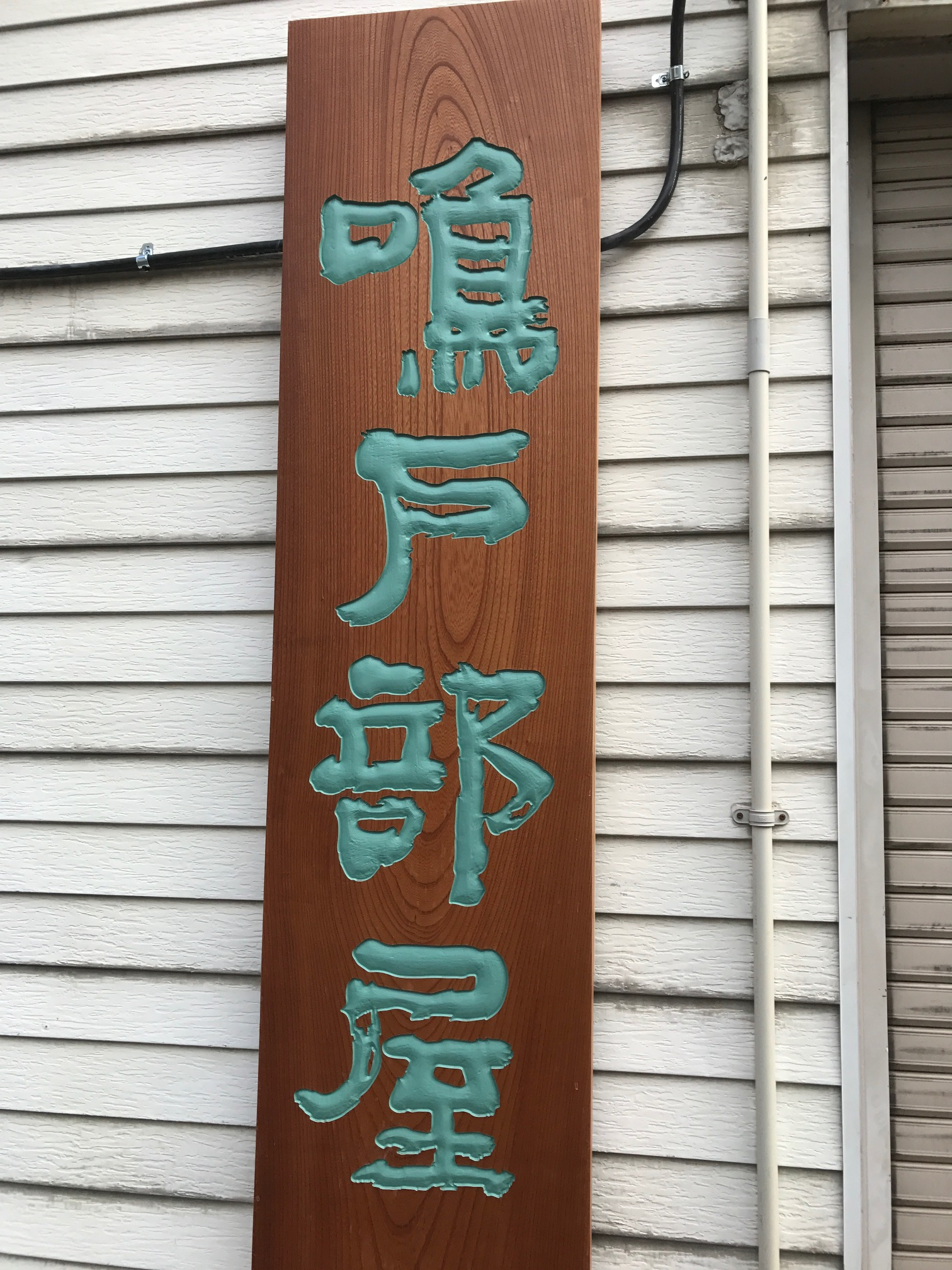 taken in front of stable